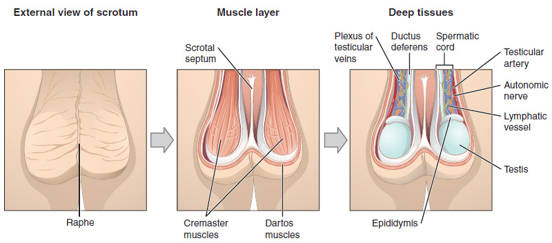 Illustration from Anatomy & Physiology, Connexions Web site. Jun 19, 2013.